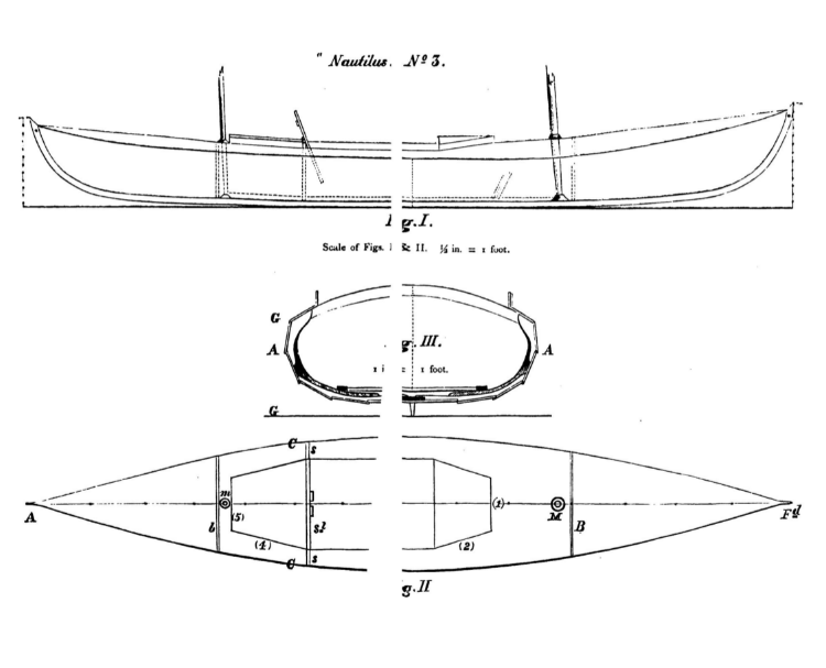 This canoe was used by Warington Baden-Powell on his Baltic cruise in 1869. The design was based on the "Rob Roy" style of hybrid canoe-kayak introduced by John "Rob Roy" MacGregor. Warington continued improving his design, taking Nautilus No. 5 to the United States in 1886 to compete against the American Canoe Association.